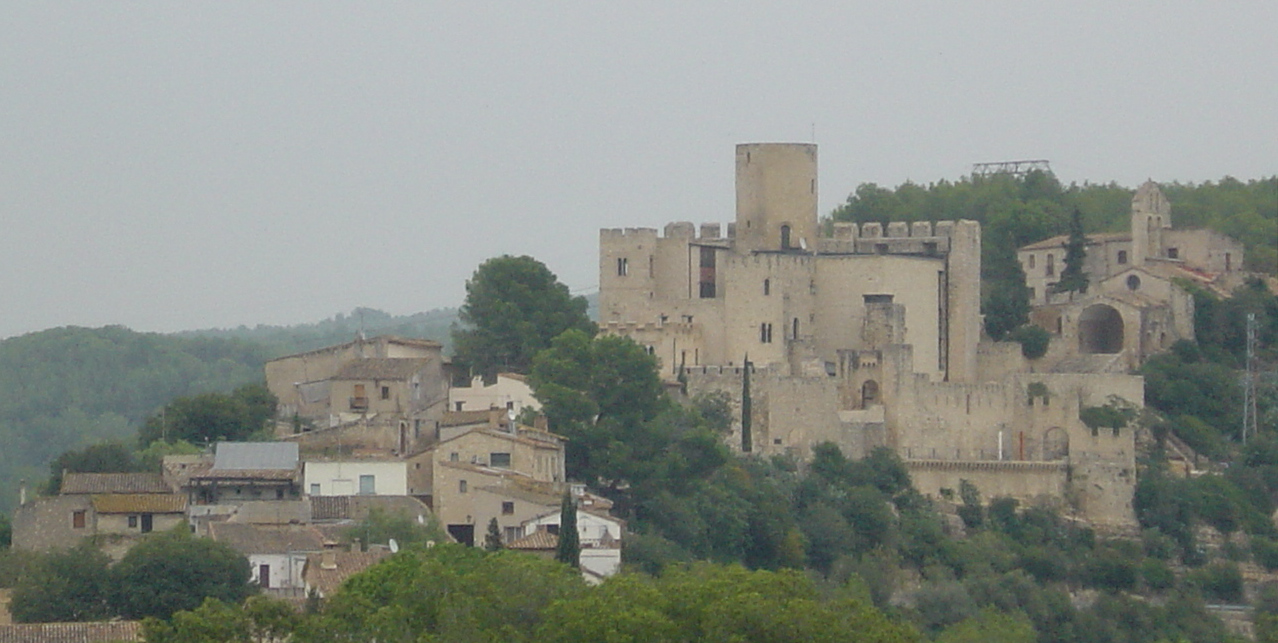 Castellet, its castle and St Pere's Hermitage